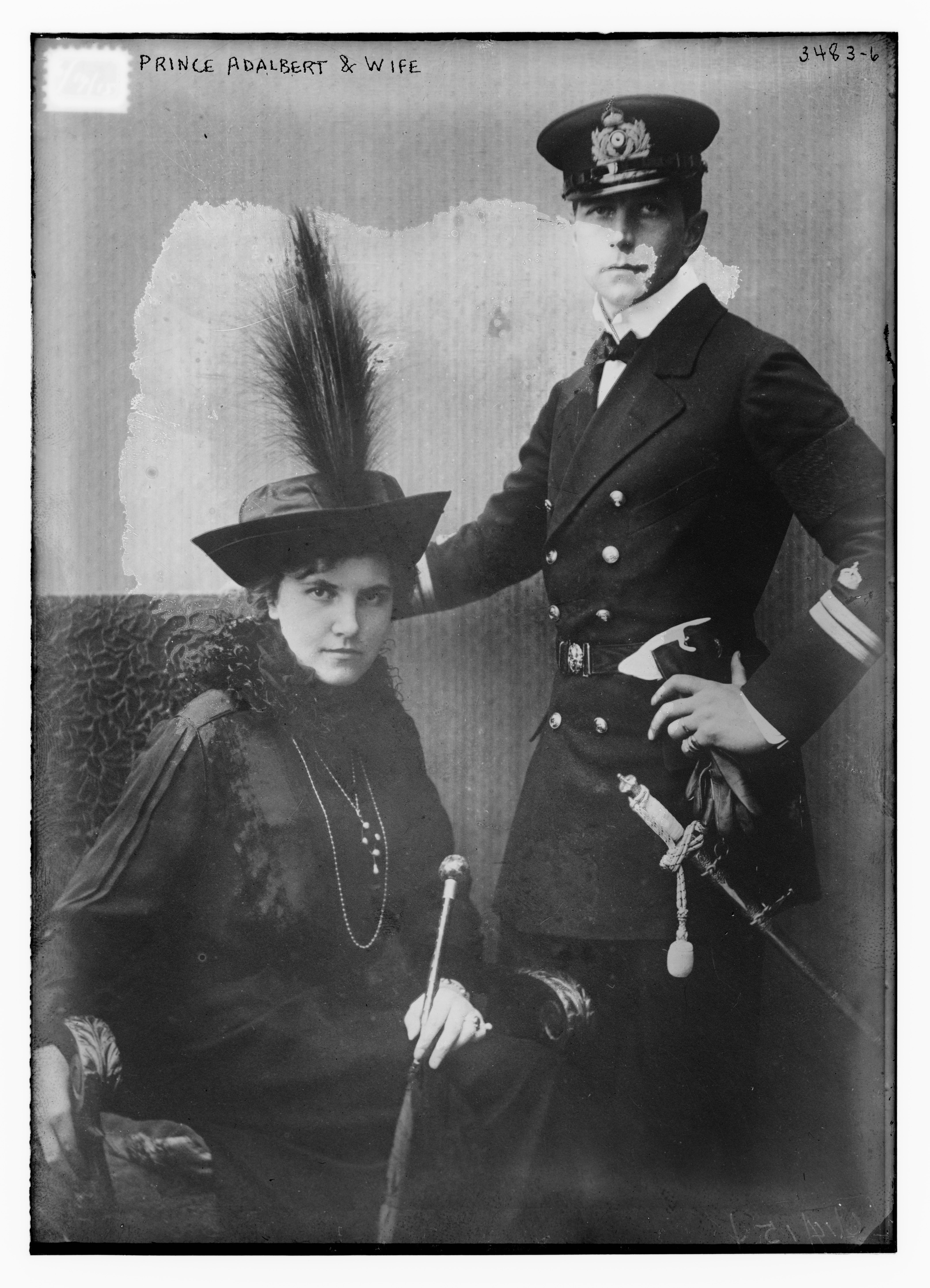 Title: Prince Adalbert and wife Abstract/medium: 1 negative : glass ; 5 x 7 in. or smaller.